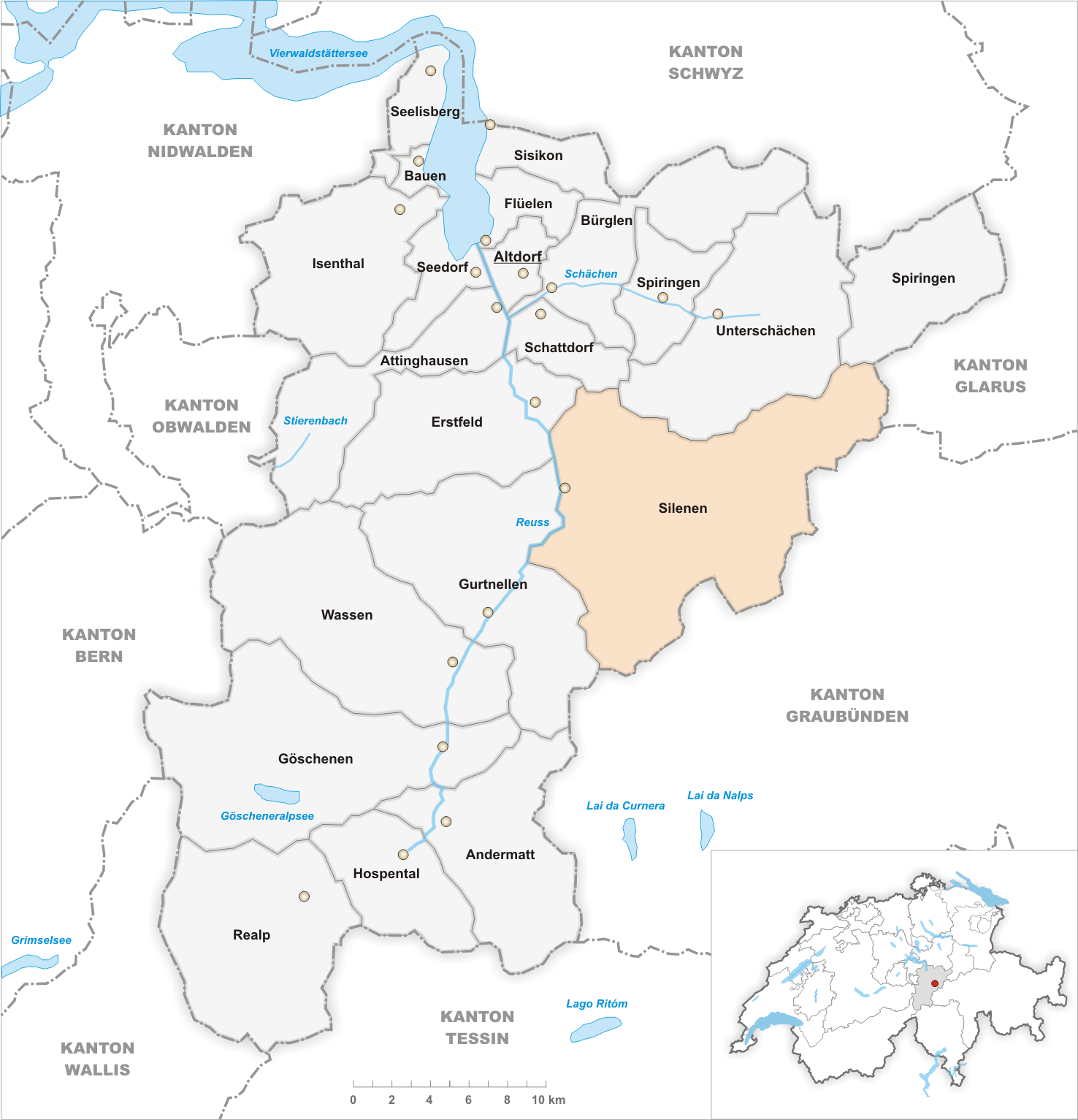 Municipality Silenen